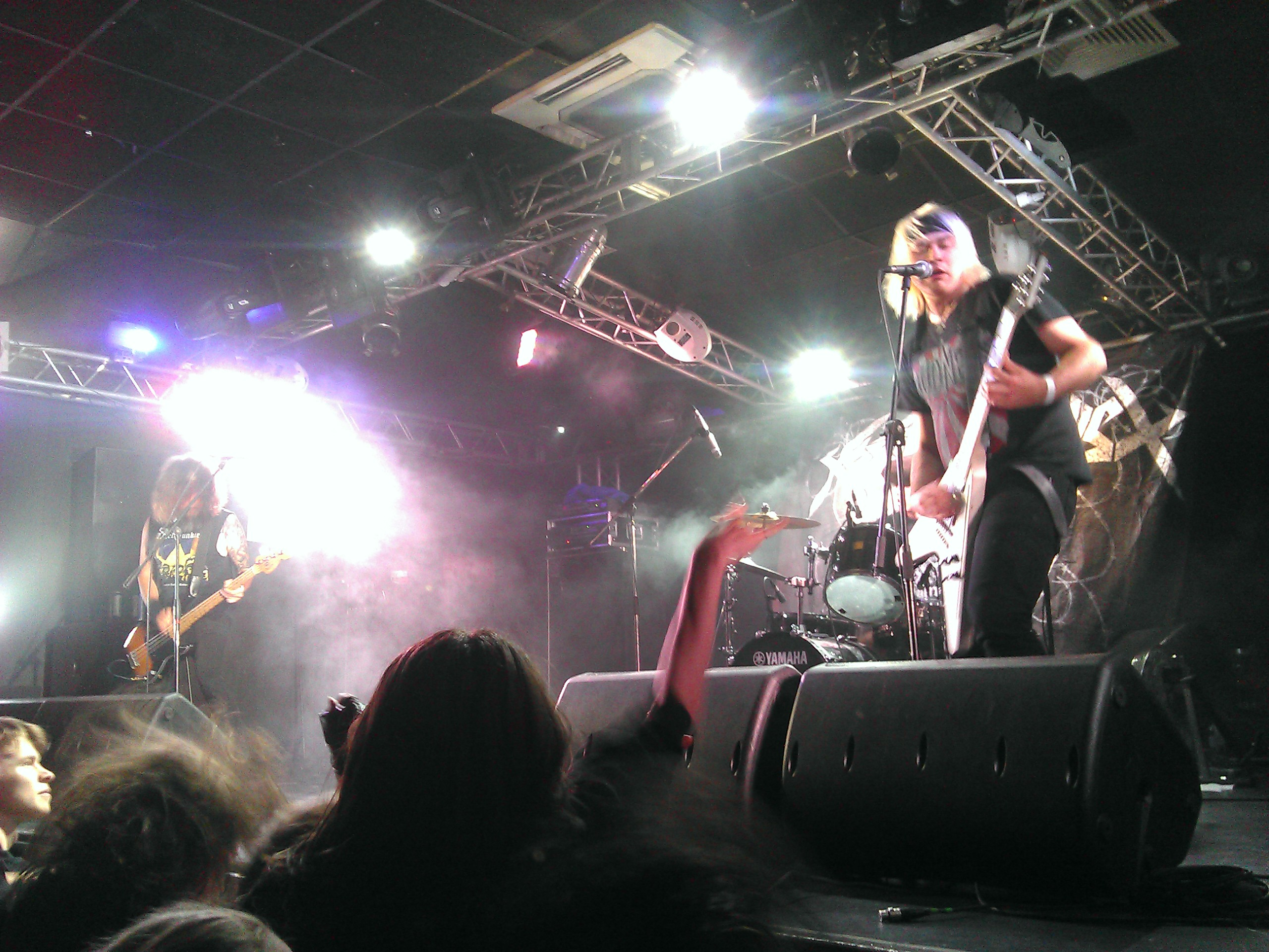 American thrash metal band Toxic Holocaust, performing at the "Zal Ozhidaniya" club in Saint Petersburg, Russia.